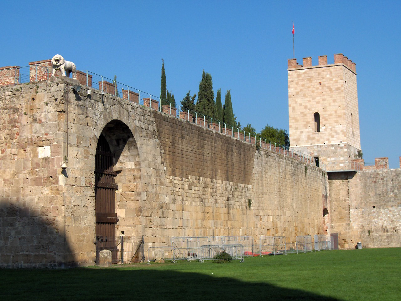 City walls of Pisa, Italy, erected in 1156 by Consul Cocco Griffi.